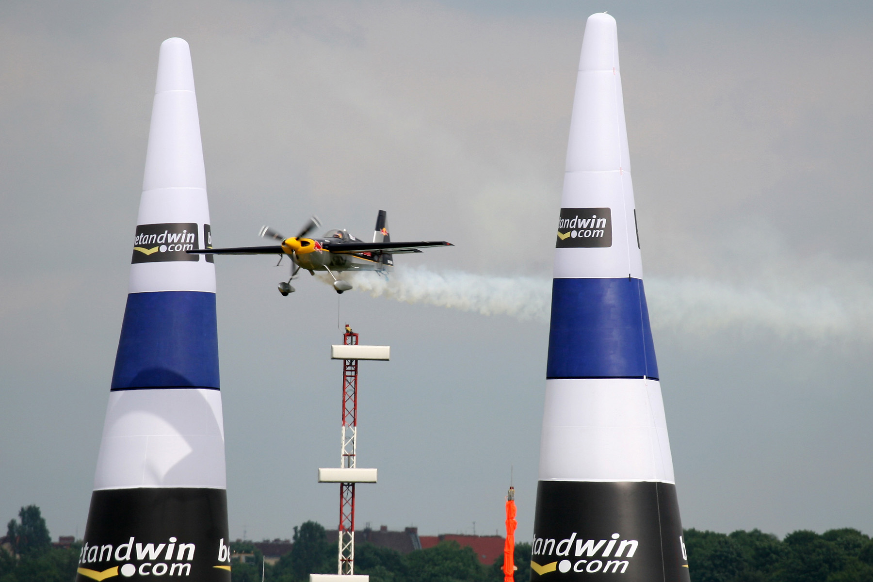 Kirby Chambliss at the Red Bull Air Race on Berlin Tempelhof Airport 2006